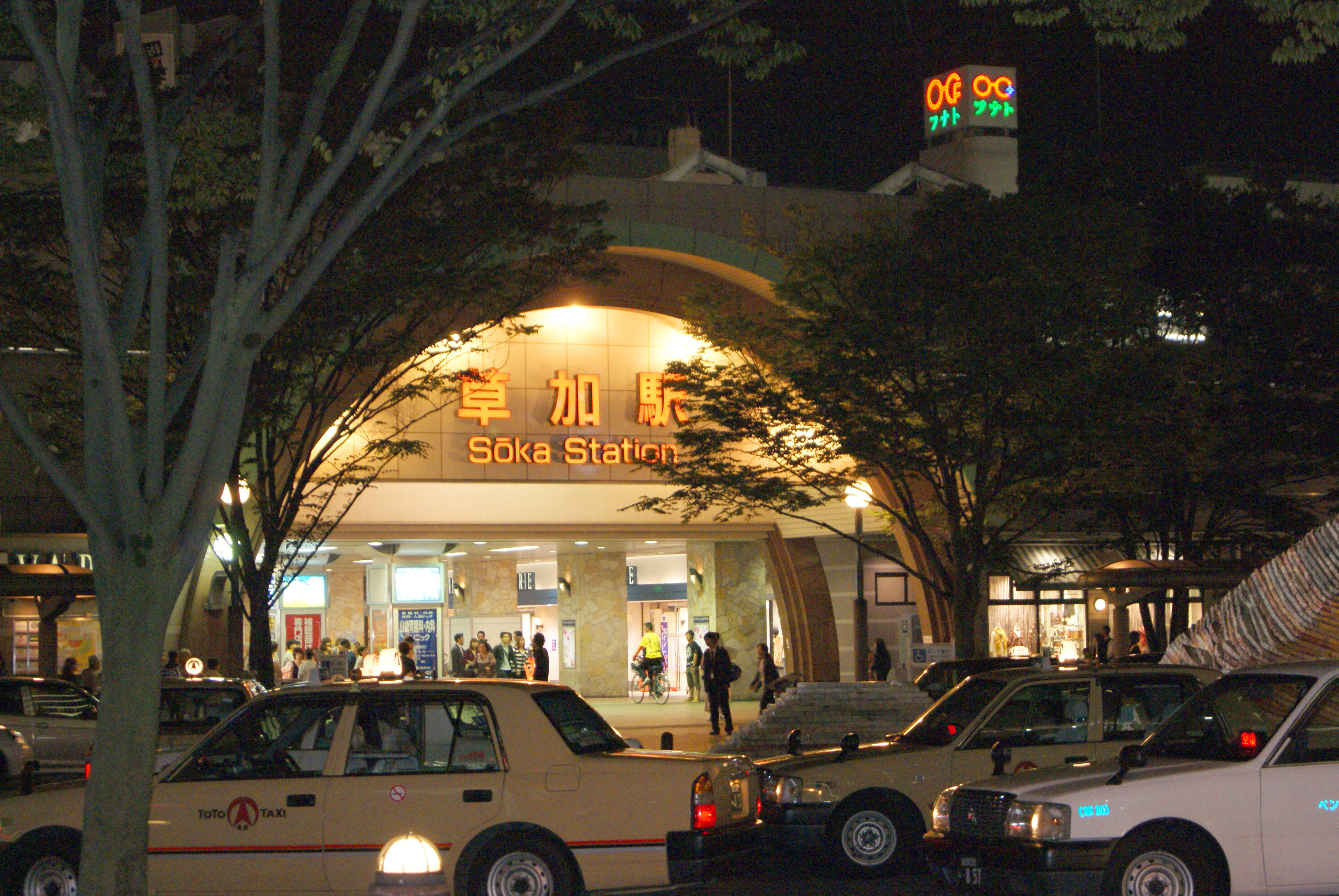 East Entrance of Soka Station in Saitama, Japan.